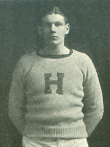 Ralph Gorman Hills (1902–1977), a 1921 graduate of The Hill School in Pottstown, Pennsylvania, whose alumni association inducted him to their Athletics Hall of Fame in 2012. Hills is posing for the school photograph while wearing his athletics uniform.